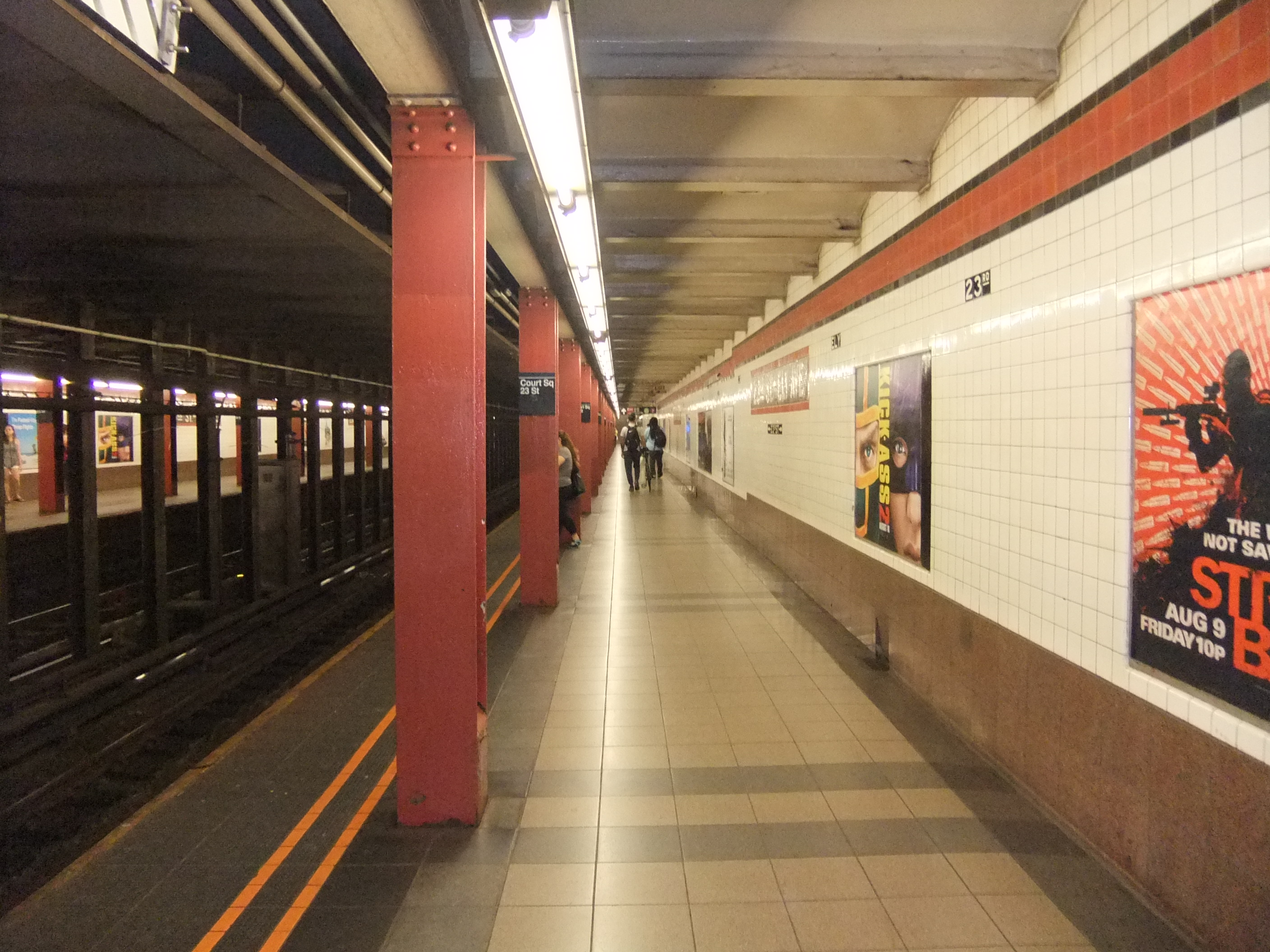 Forest Hills/Jamaica bound platform at Court Sq - 23rd Street